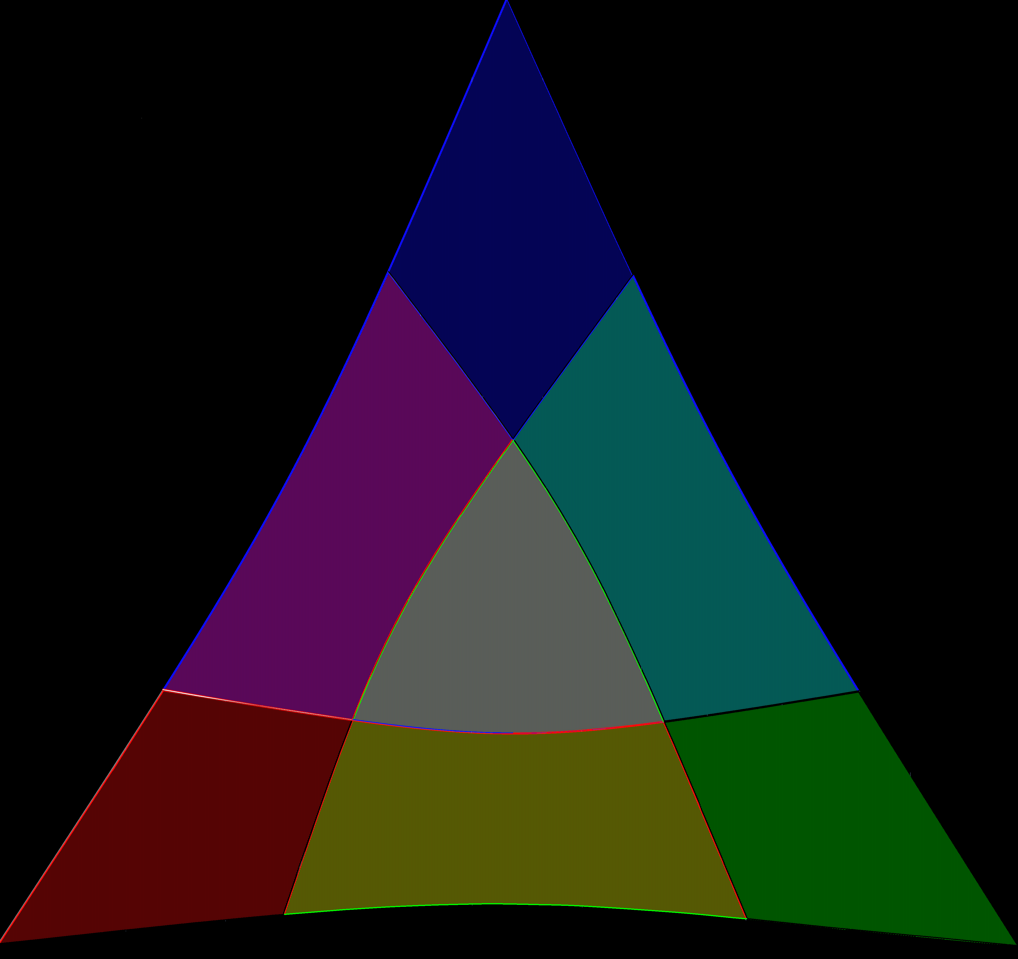 Additive mixing of primary colors using only red, green, and blue lines